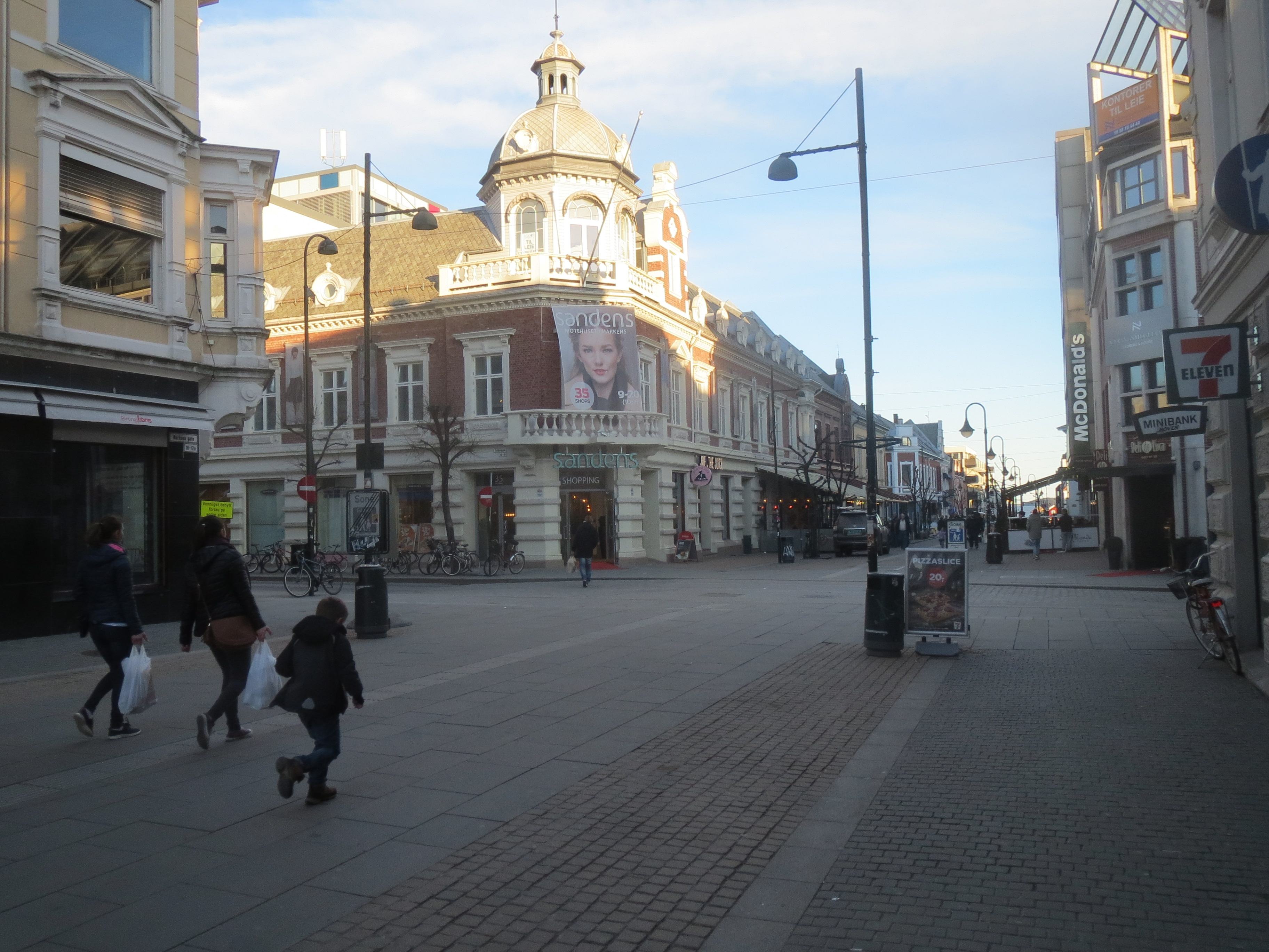 Sandens Shopping Center, Kristiansand, Norway